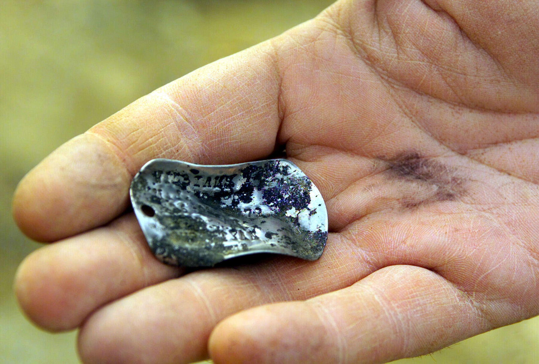 The Dog Tag of a US Marine Corps (USMC) Marine listed as Missing In Action (MIA) is found among the debris and wreckage of a destroyed Amphibious Assault Vehicle (AAV7A1), at an ambush site located within the city of An Nasariyah, Iraq, during Operation IRAQI FREEDOM. Location: AN NASARIYAH, DHI QAR IRAQ (IRQ)